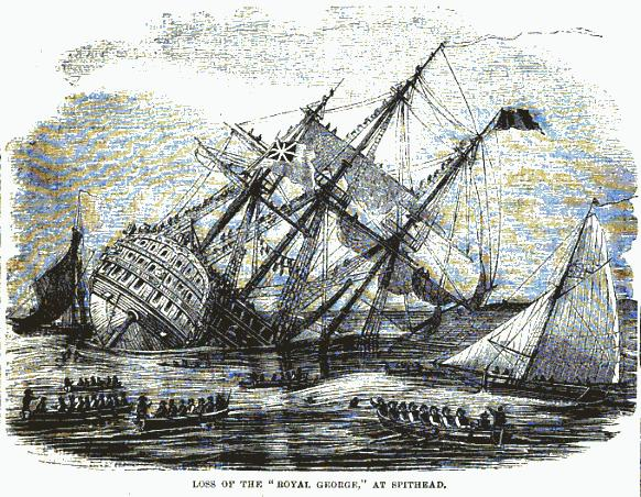 A depiction of the sinking of the H.M.S. Royal George on 28 August 1782 at Spithead, an area of the Solent in England, UK.